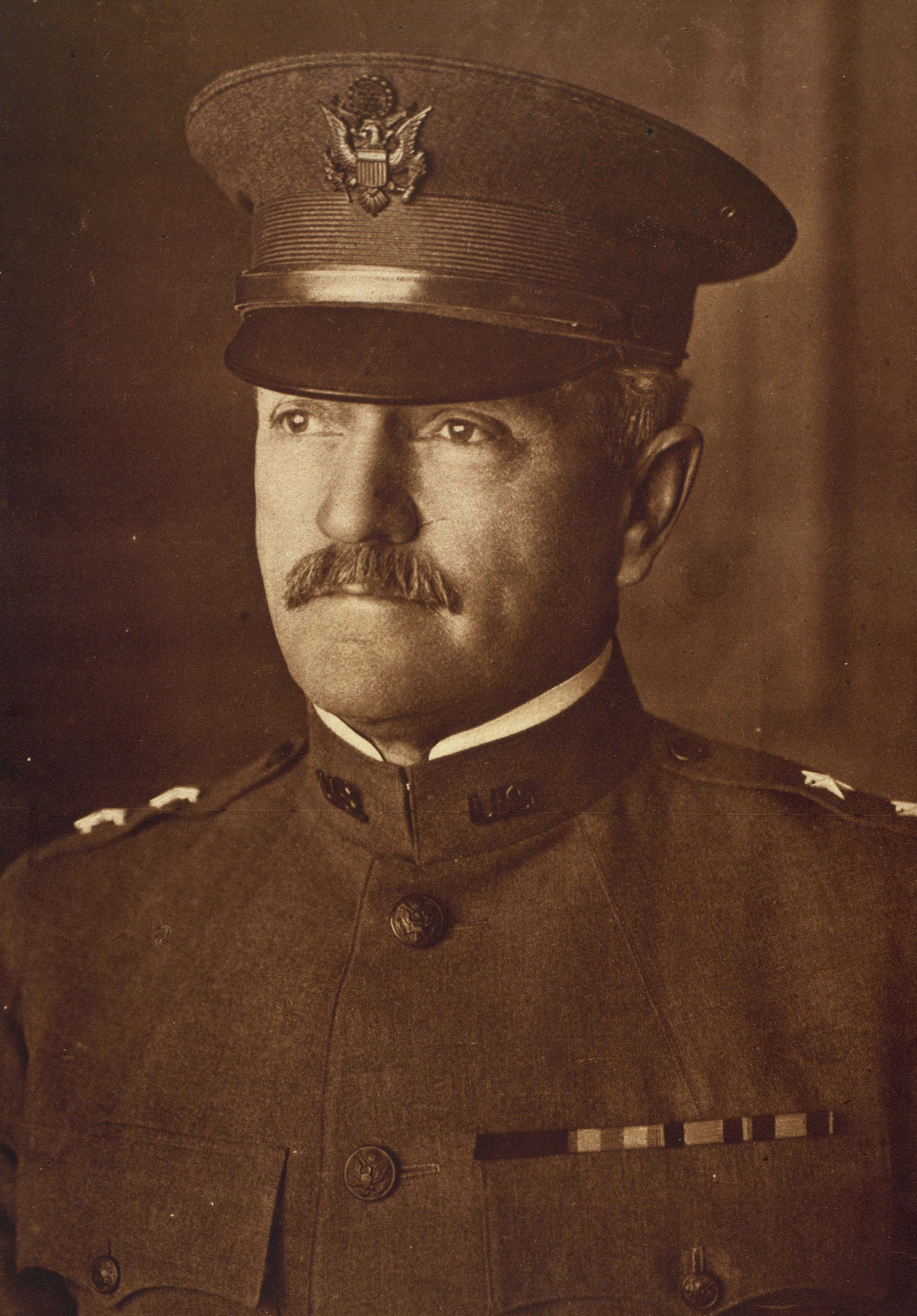 General John J. Pershing, Commander in Chief of the American Expeditionary Forces. Page19 from "The War of the Nations : Portfolio in Rotogravure Etchings : Compiled from the Mid-Week Pictorial" (New York : New York Times, Co., 1919) Notes: Selected from "The War of the Nations: Portfolio in Rotogravure Etchings," published by the New York Times shortly after the 1919 armistice. This portfolio compiled selected images from their "Mid-Week Pictorial" newspaper supplements of 1914-19. 528 p. : chiefly ill. ; 42 cm.; Subjects: World War, 1914-1918 --Pictorial works. New York--New York Format: Rotogravures --1910-1920. Rights Info: No known restrictions on reproduction Repository: Library of Congress, Serials and Government Publications Division, Washington, D.C. 20540 Part Of: Newspaper Pictorials: World War I Rotogravures, 1914-1919 (DLC) sgpwar 19191231 General information about the Newspaper Pictorials: World War I Rotogravures, 1914-1919 digital collection is available at Persistent URL: Call Number: D522 .W28 1919